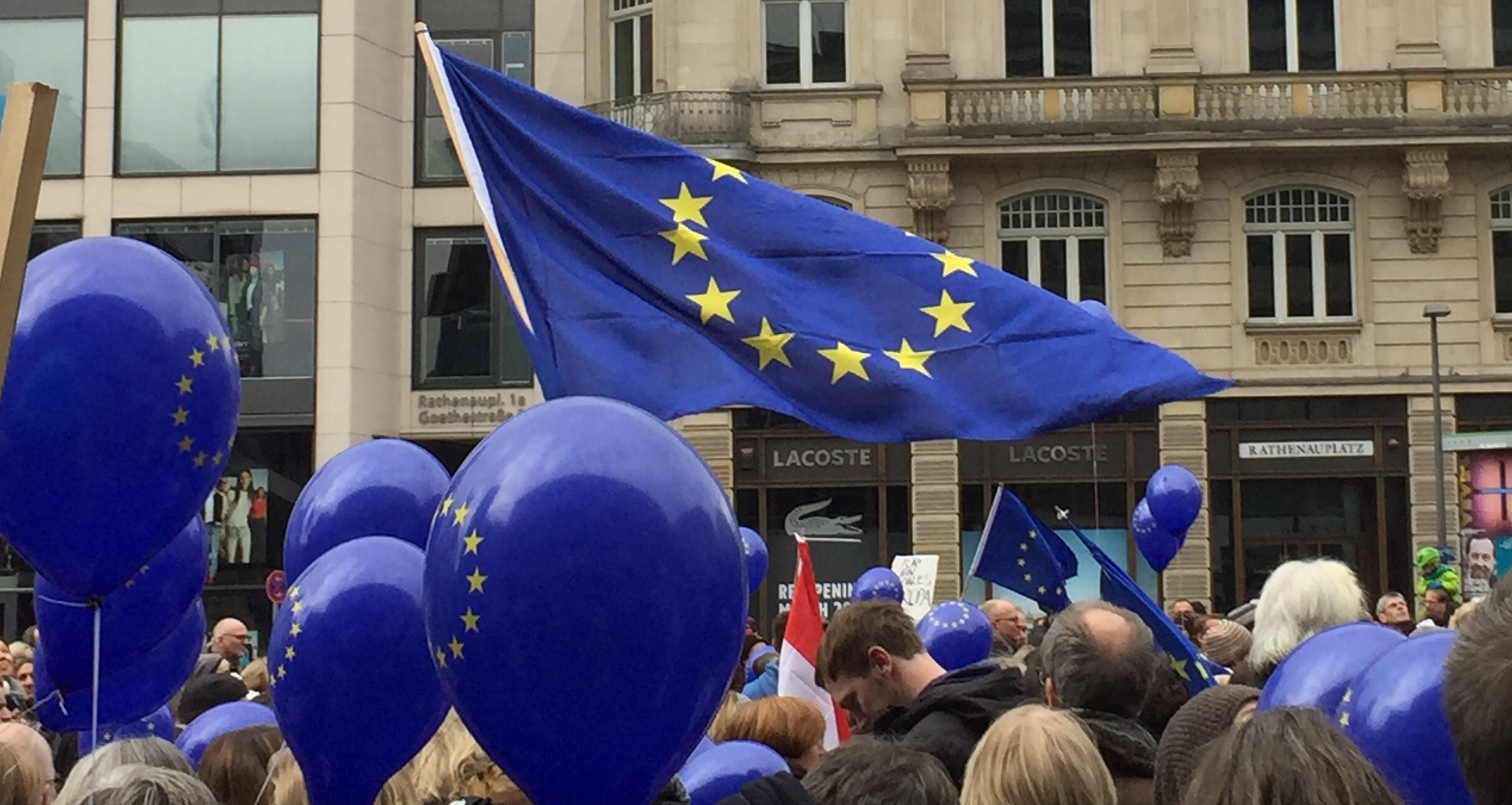 Public meeting of the Pulse of Europe Initiative, Frankfurt, Germany, 19 February, 2017